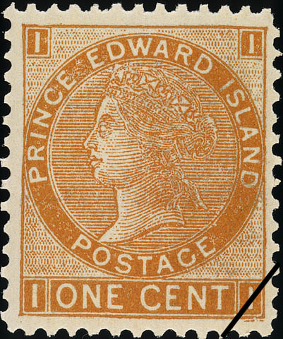 1 cent PEI 1872 stamp